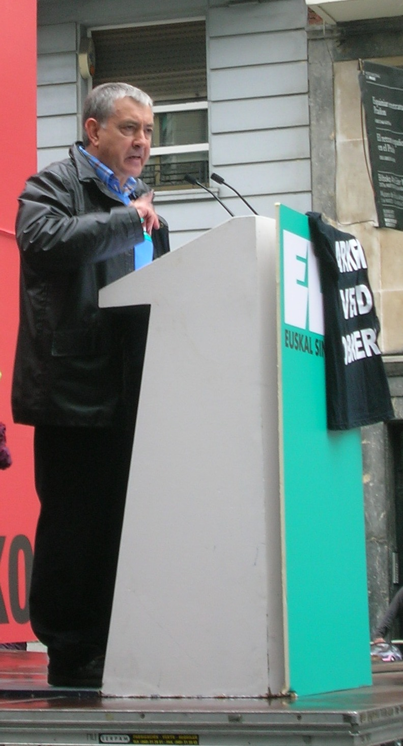 Jose Elorrieta (then secretary general and responsible of relationships with other unions of Basque workers union Eusko Langileen Alkartasuna-Solidaridad de Trabajadores Vascos) giving a speech on May 1st at Bilbao's Main Road